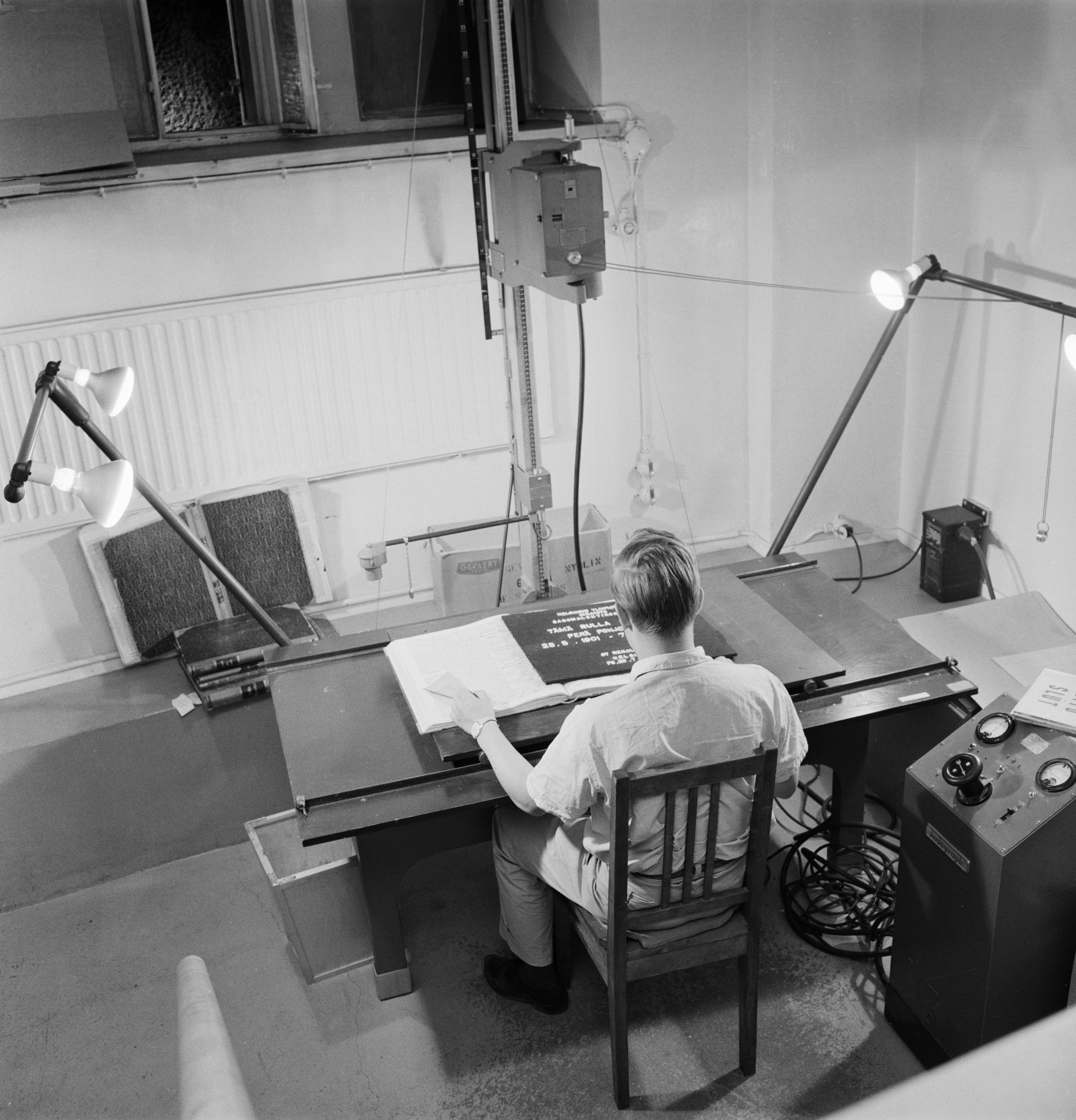 Kuvaaja Saarnisalo kuvaamassa sanomalehtiä mikrofilmille Helsingin yliopiston kirjastossa. photographer unknown / kuvaaja tuntematon 1959 Helsinki, Uusimaa, Finland / Suomi Finnish Museum of Photography / Suomen valokuvataiteen museo